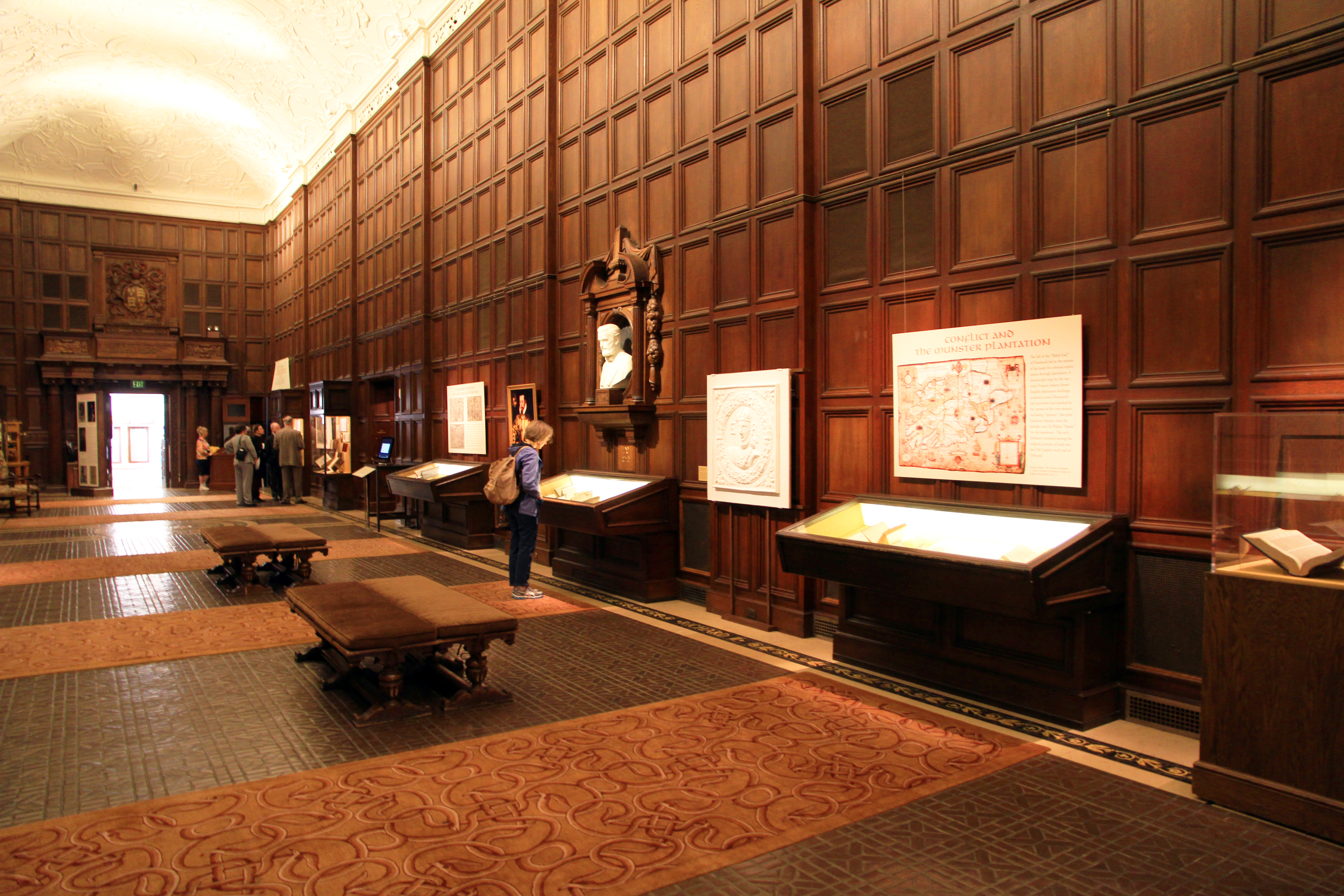 Folger Shakespeare Library